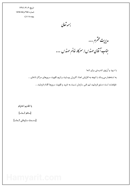 Example of a Business letter in Persian Language